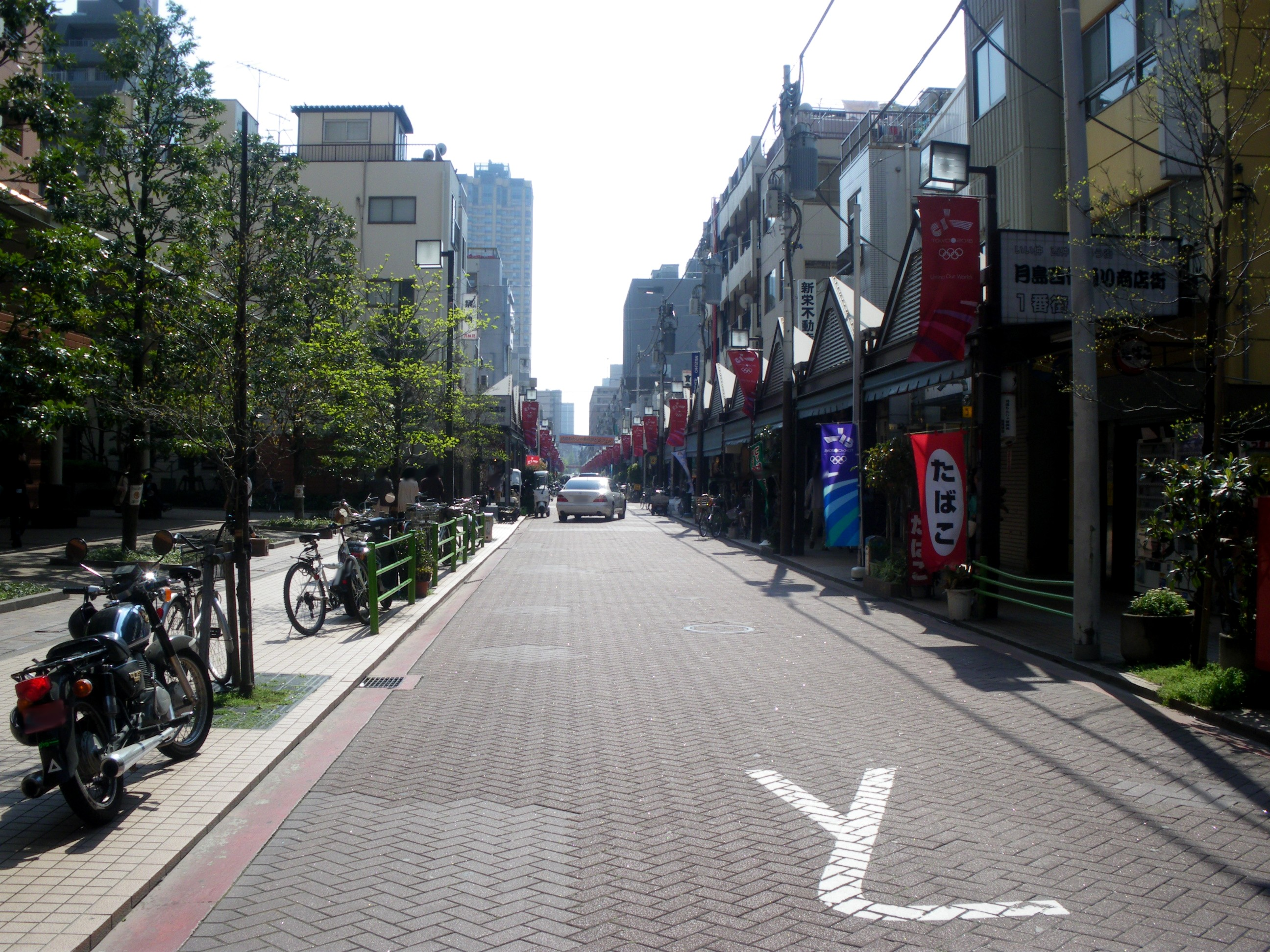 A photo of Tsukishima Monja Street,Chuo-ku,Tokyo,Japan.